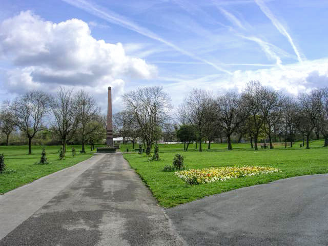 Crumpsall Park. This park is a green oasis in a rather run-down area of north Manchester. It was opened in the 1890's and went into serious decline in the 1980's. Recent regeneration has transformed it and it is now well used by the community it serves. The obelisk used to be situated in the centre of Manchester before being moved to here. Picture taken from SD 846 020